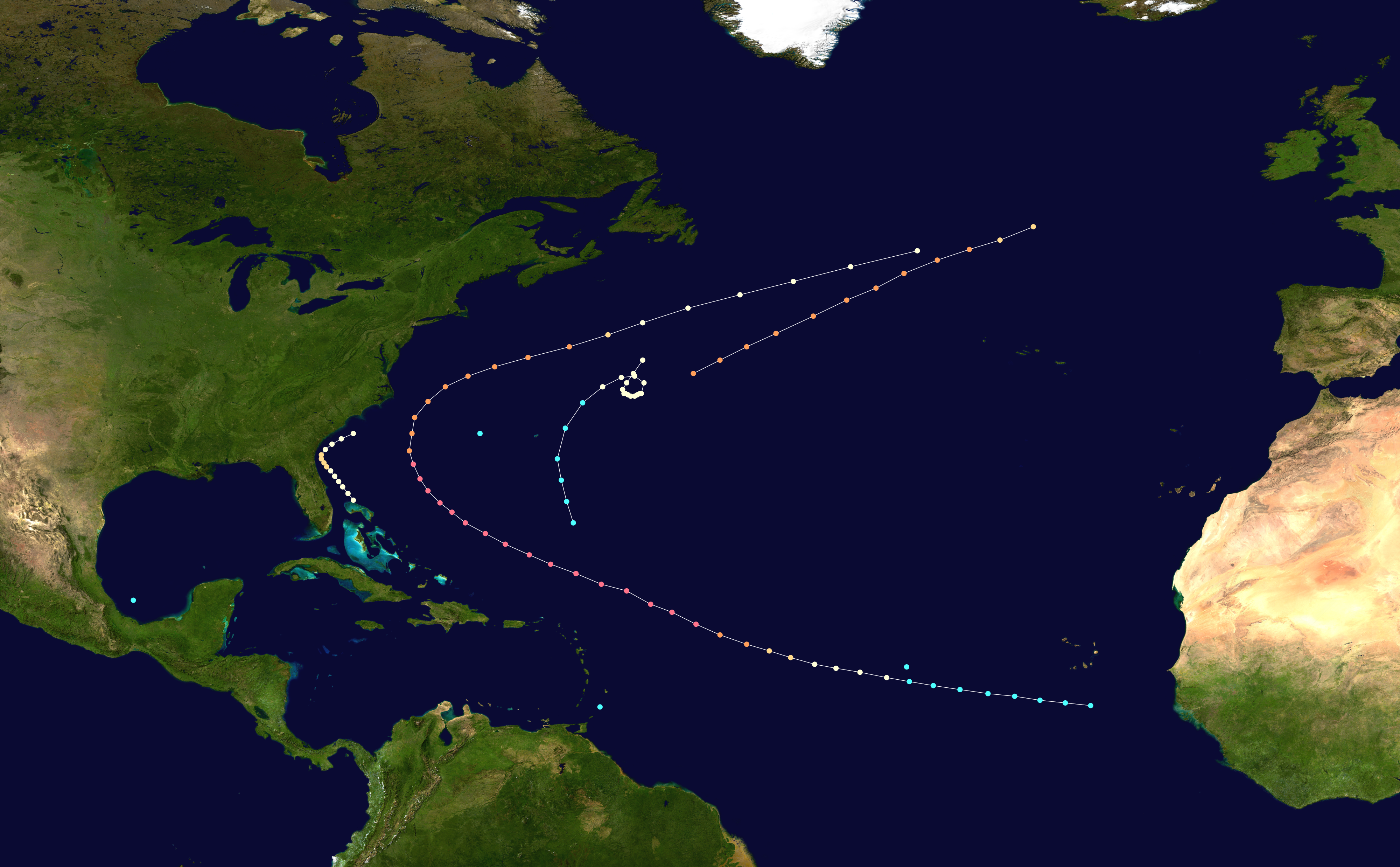 This map shows the tracks of all tropical cyclones in the 1853 Atlantic hurricane season. The points show the location of each storm at 6-hour intervals. The colour represents the storm's maximum sustained wind speeds as classified in the Saffir-Simpson Hurricane Scale (see below), and the shape of the data points represent the type of the storm. Saffir–Simpson hurricane wind scale Tropical depression≤38 mph≤62 km/h Category 3111–129 mph178–208 km/h Tropical storm39–73 mph63–118 km/h Category 4130–156 mph209–251 km/h Category 174–95 mph119–153 km/h Category 5≥157 mph≥252 km/h Category 296–110 mph154–177 km/h Unknown Storm typeTropical cycloneSubtropical cycloneExtratropical cyclone / Remnant low / Tropical disturbance